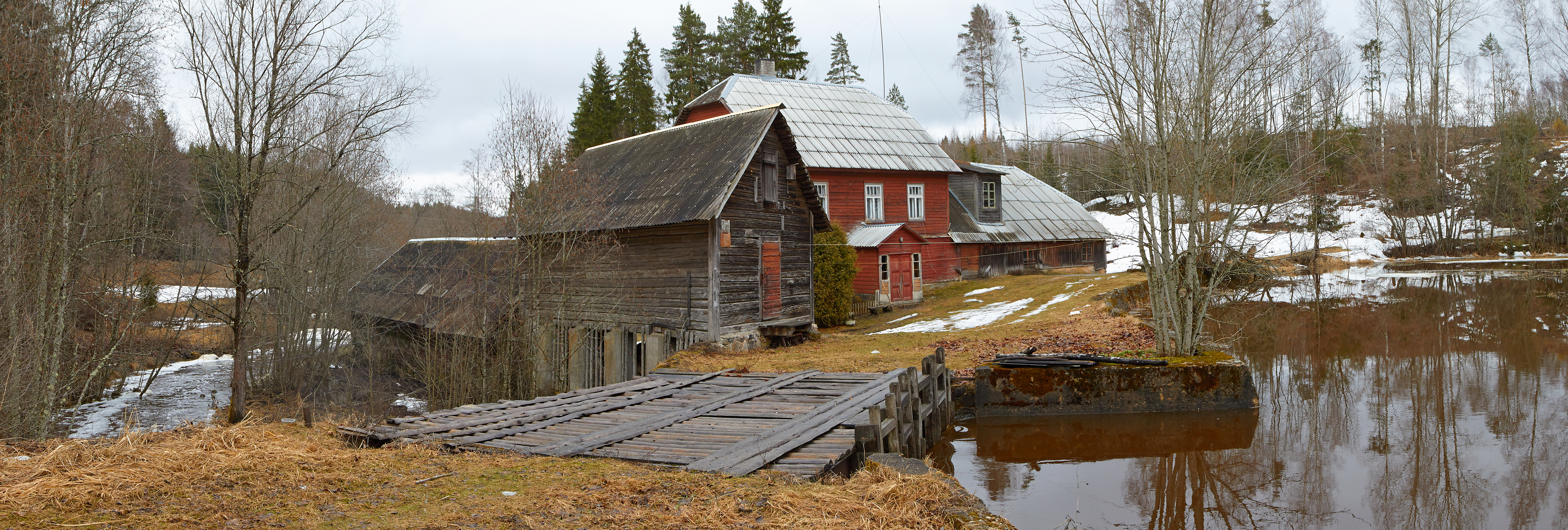 Three-image stitched panorama of red mill buildings, with weir and race in front